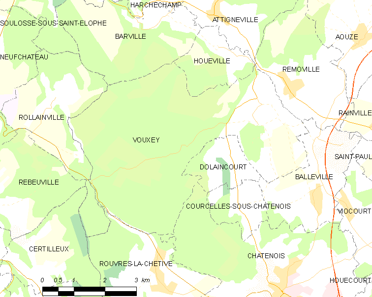 Map of French municipality Vouxey